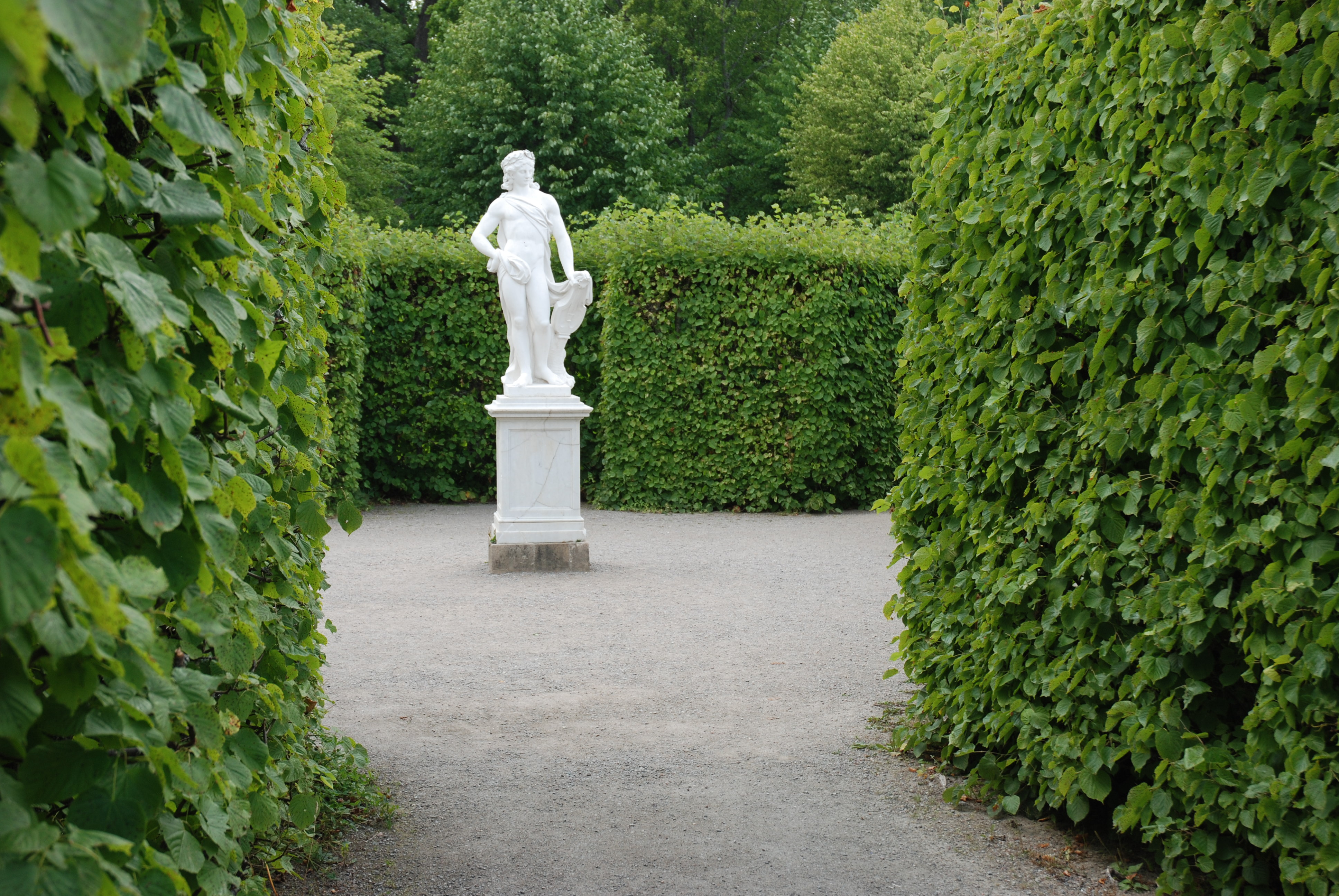 An Apollo kitharoidos, marble, said to be copy of antique sculpture, Italy, 1780s. However, original seems not to be known, and the sculpture may be a a rather free neoclassistic interpretation of the antique kitharoisos theme. The sculpture is located on the premises of the Drottningholm castle outside Stockholm in Sweden, in a bousquet in the baroque garden. It was bought by King Gustav III in Rome 1784 for the Drottningholm Castle gardens.